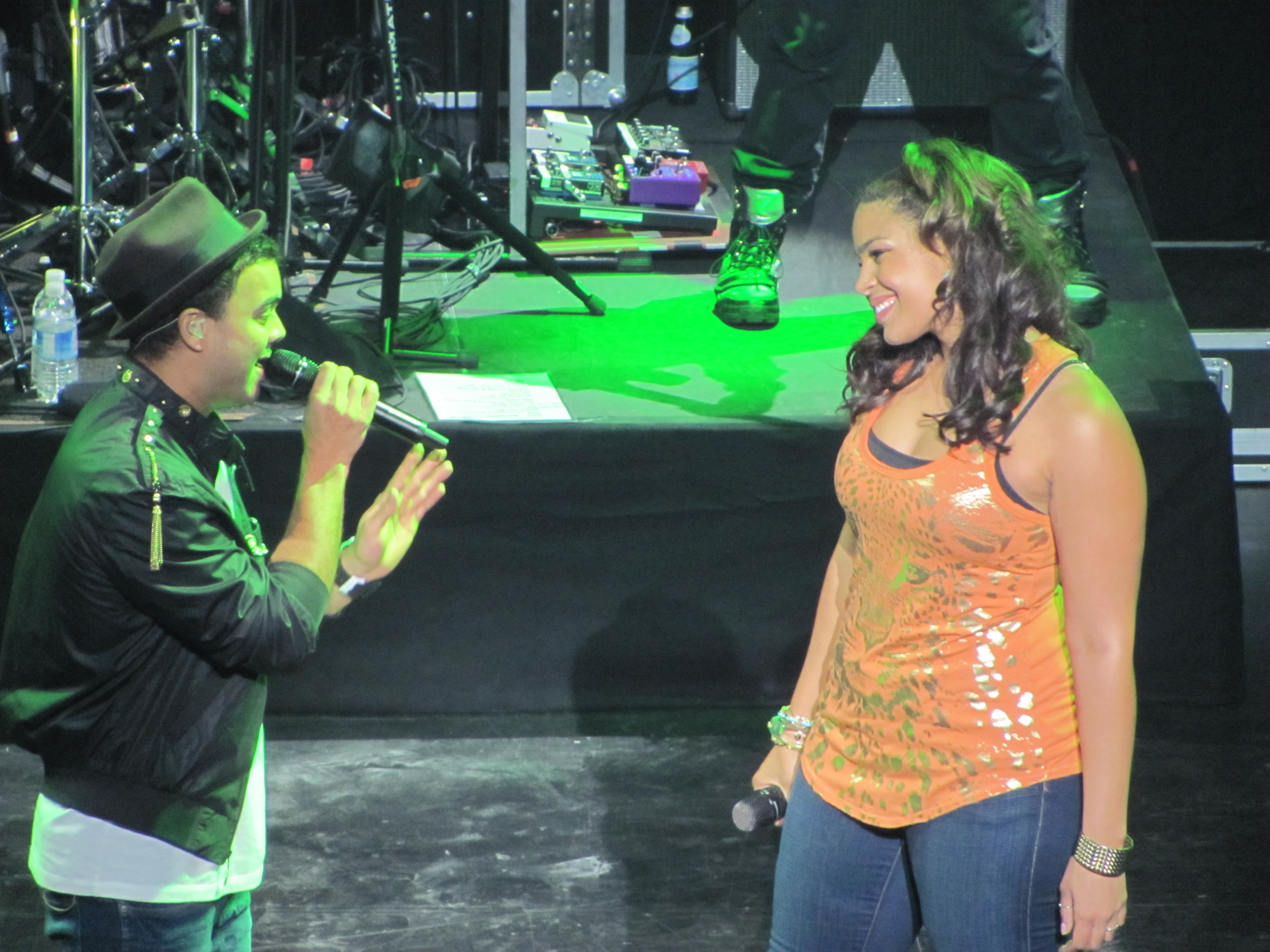 Image of Jordin Sparks & Guy Sebastian performing Art Of Love in Los Angeles in July, 2010